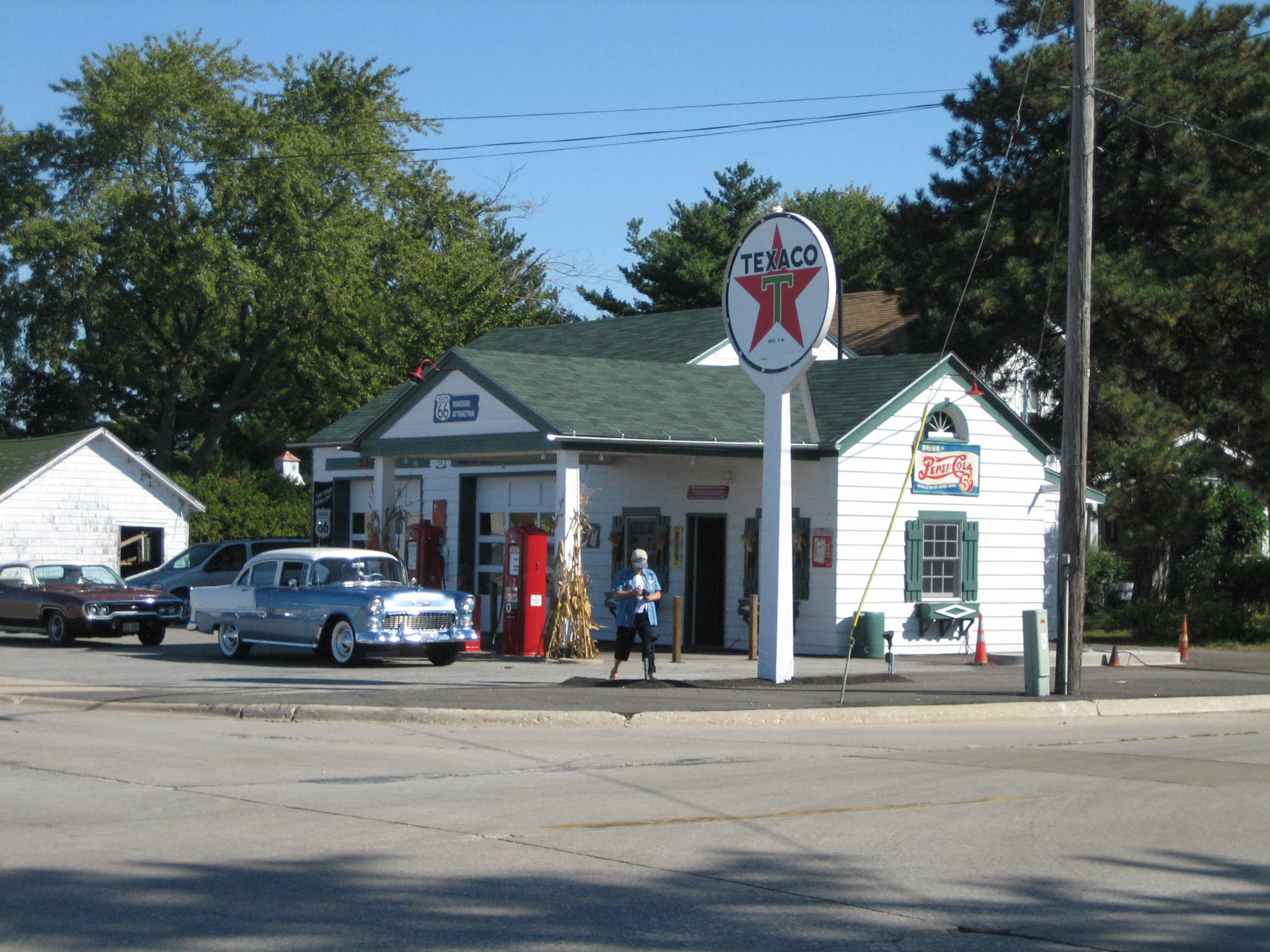 Ambler's Texaco Gas Station, Dwight, Illinois, USA, along historic U.S. Route 66.